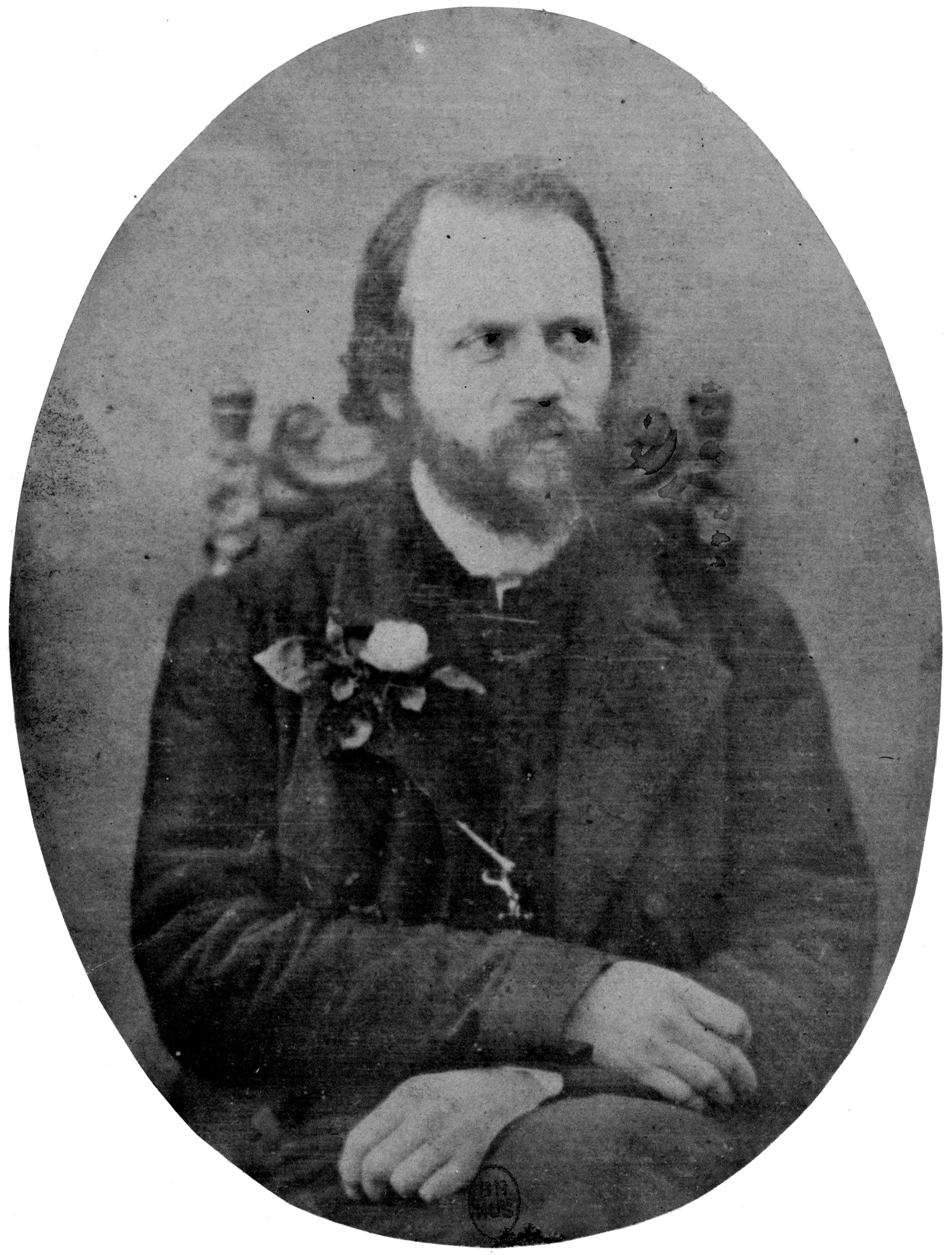 Charles-Valentin Morhange dit Alkan (1813-1888), French composer and pianist